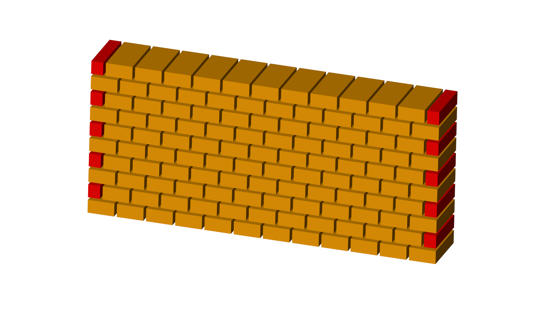 Header bond